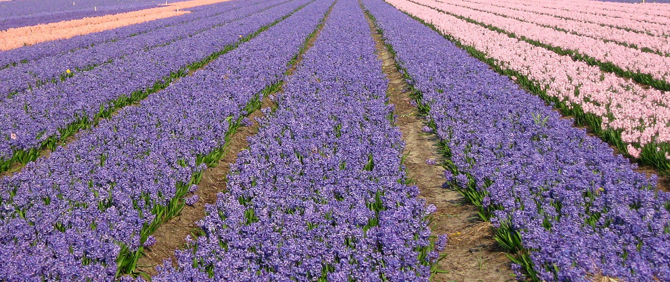 Hyacinths in a field in Holland